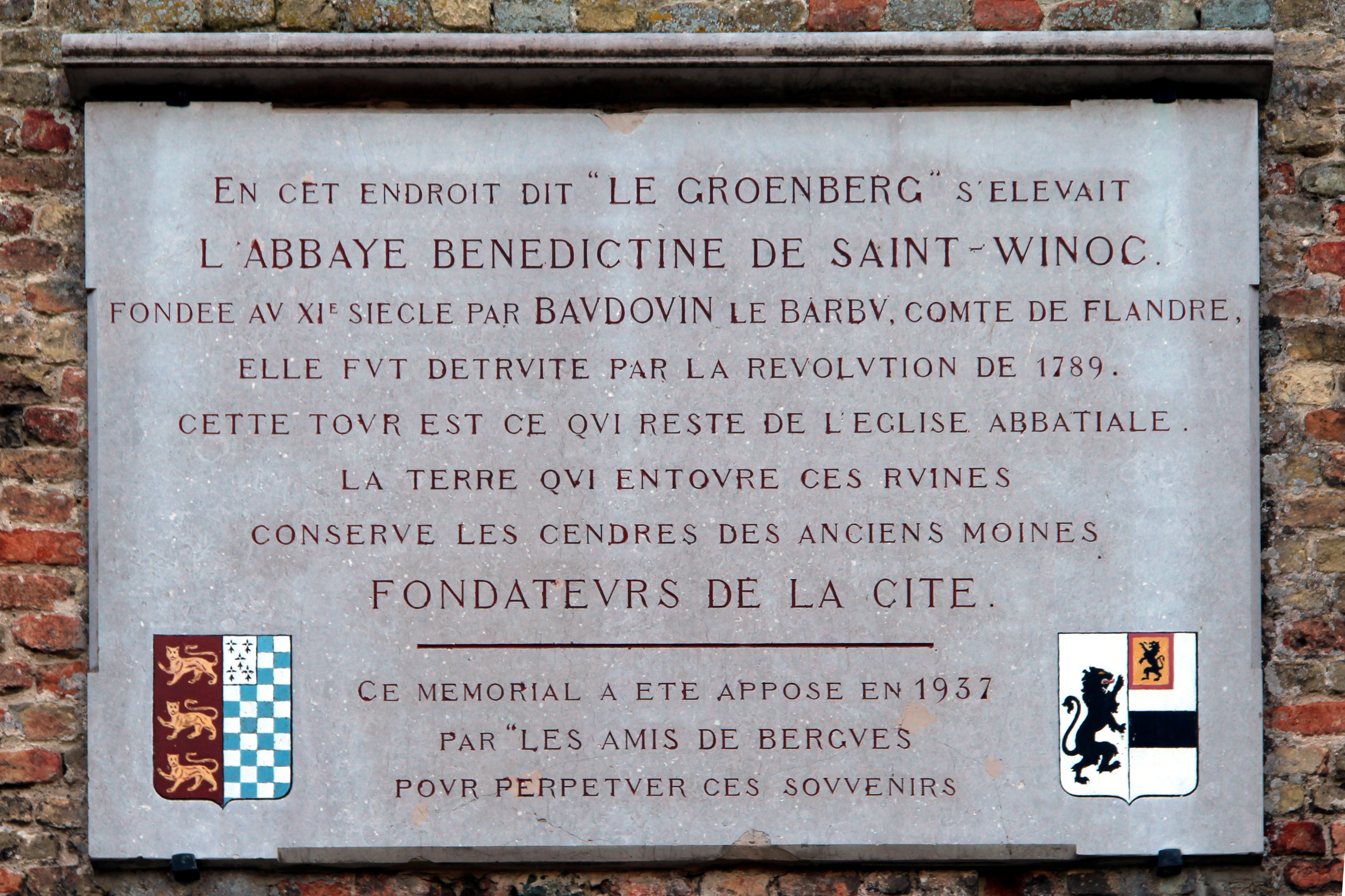 Commemorative plaque affixed in 1937 on the site of the former Saint-Winoc abbey in Bergues (Nord department, France).